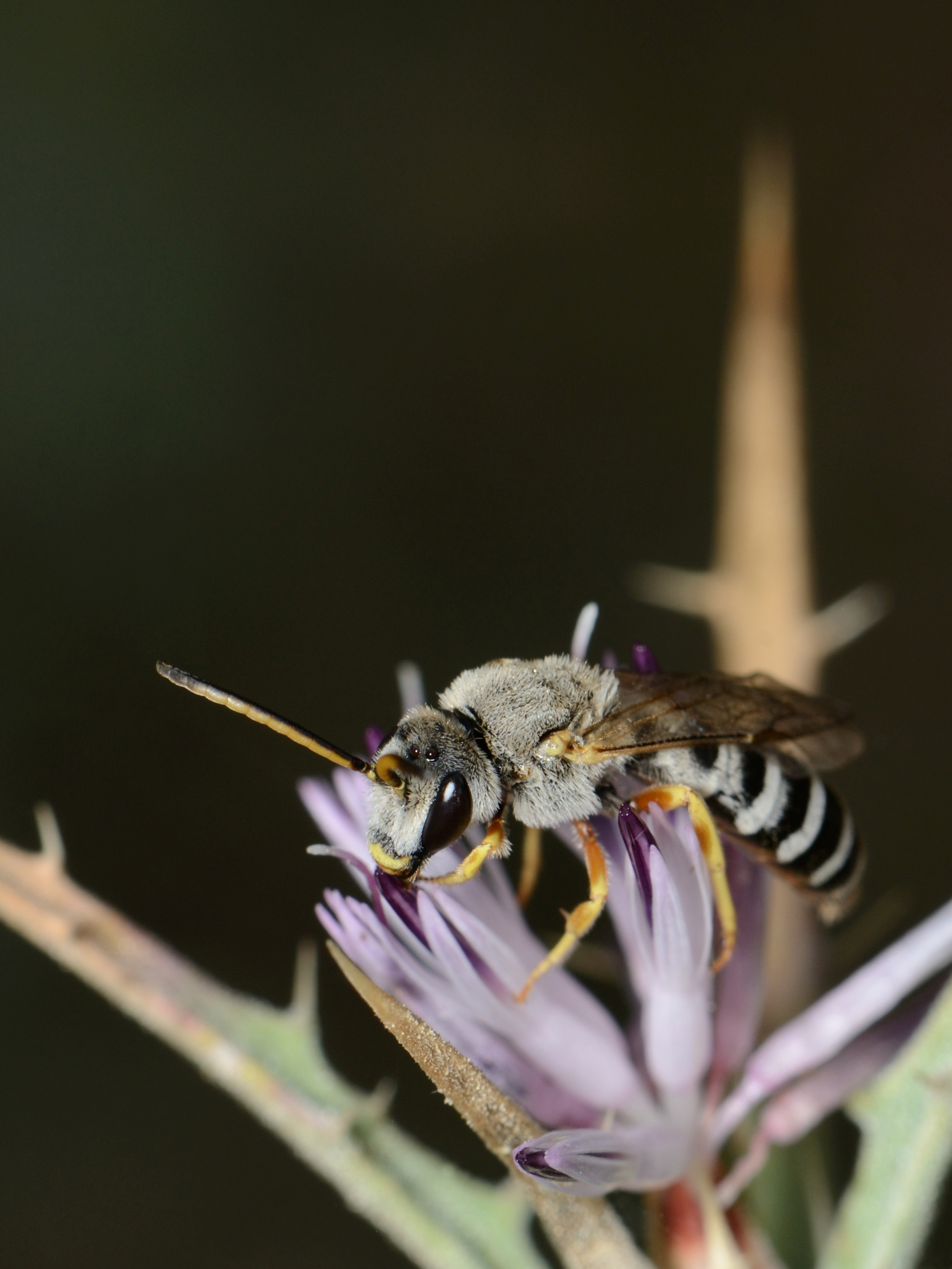 Halictus resurgens, male on Carthamus tenuis, Mount Carmel, Israel, July 24, 2012.